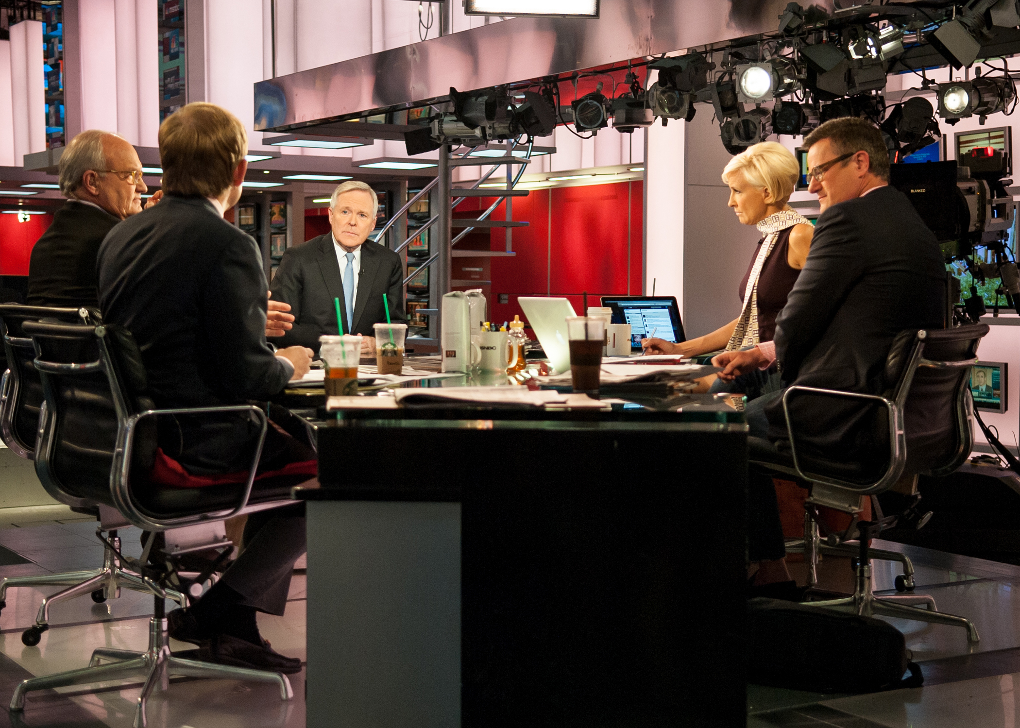 NEW YORK (May 22, 2012) Secretary of the Navy (SECNAV), the Honorable Ray Mabus, interviews with MSNBC broadcast journalists on the set of the weekday morning talk show "Morning Joe" in New York. Mabus discussed the new defense strategy, the importance of the Navy and Marine Corps team and his priority of rebuilding the fleet. (U.S. Navy photo by Chief Mass Communication Specialist Sam Shavers/Released) 120522-N-AC887-002 Join the conversation: · · navylive.dodlive.mil